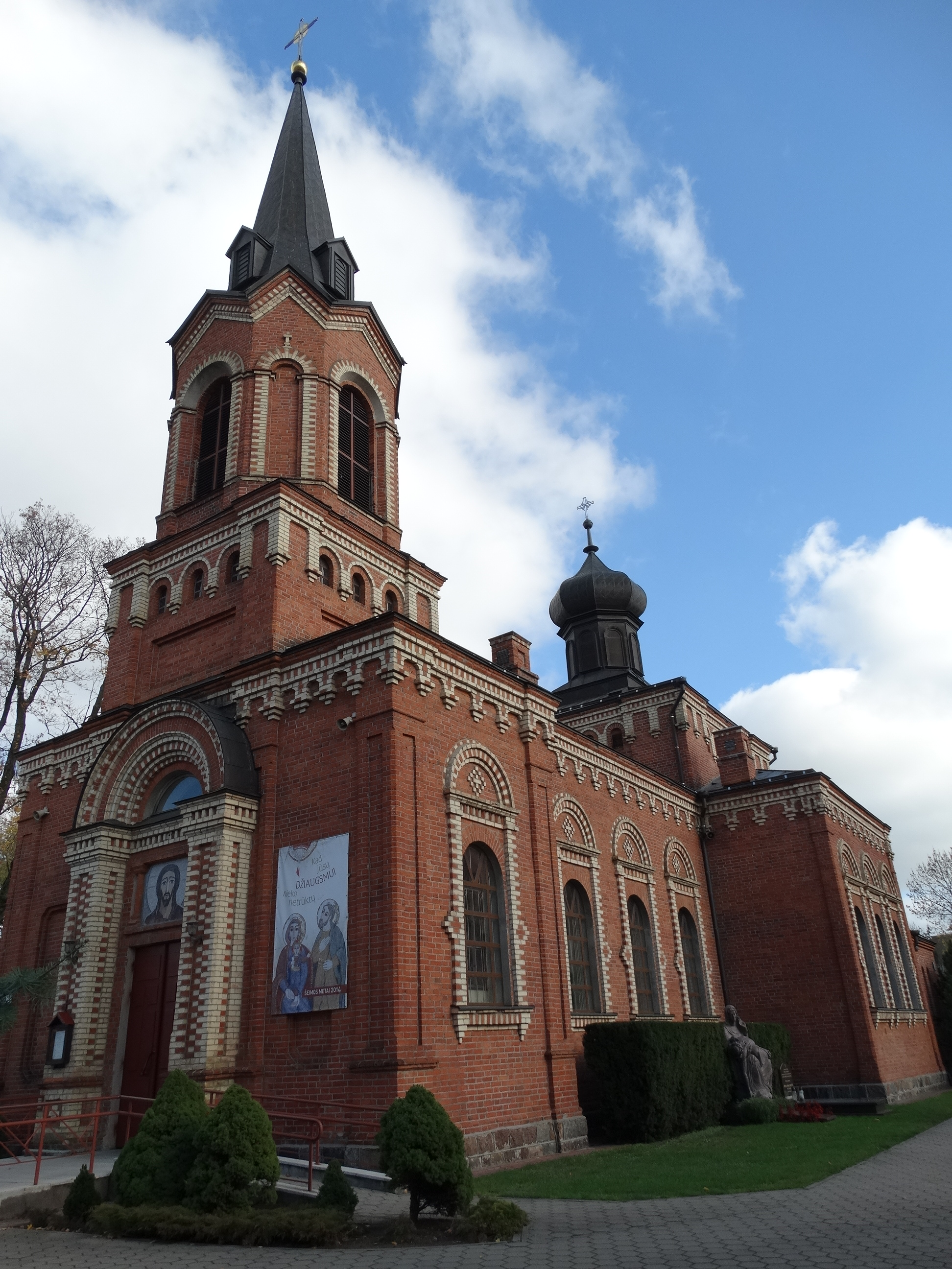 Roman Catholic Church of Saint Vincent de Paul, Marijampolė, Lithuania